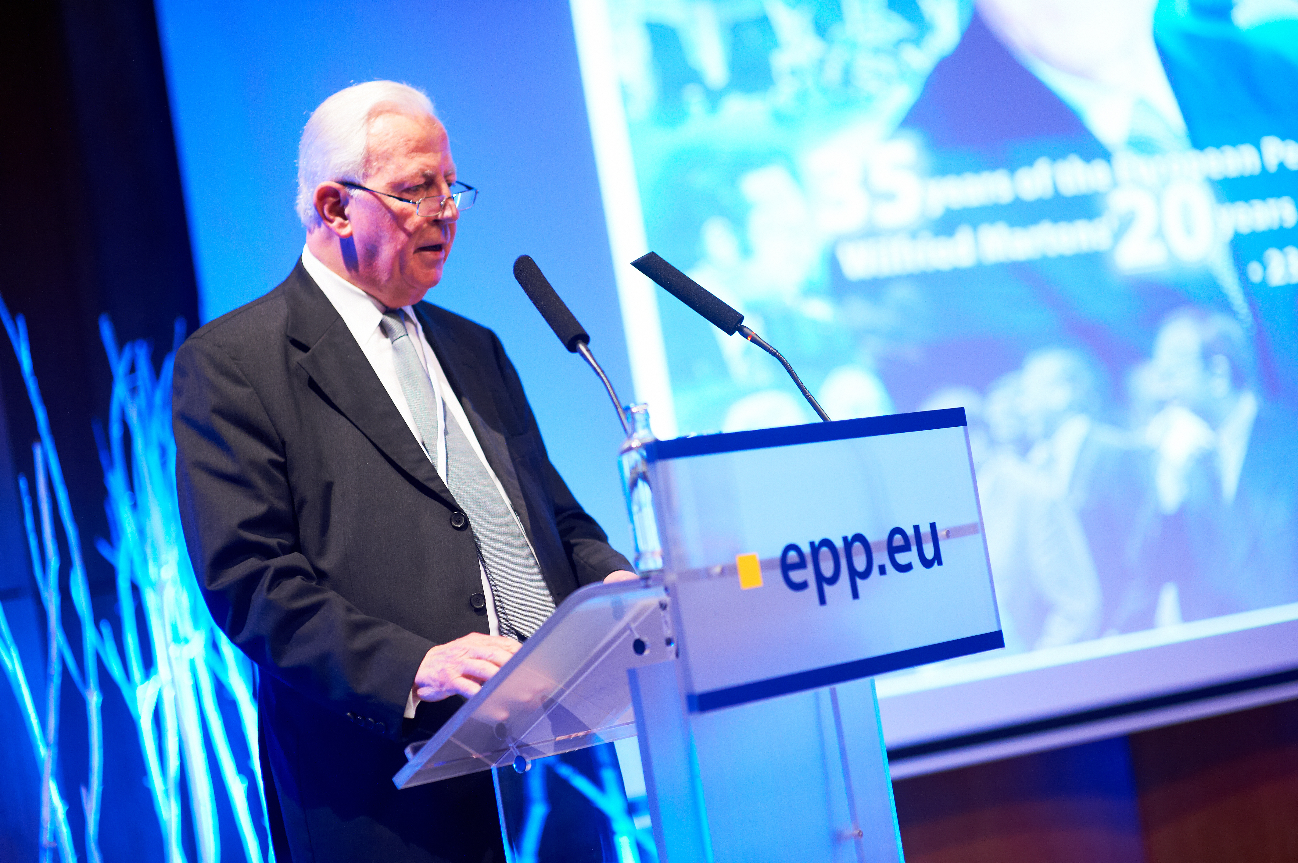 EPP 35th anniversary event